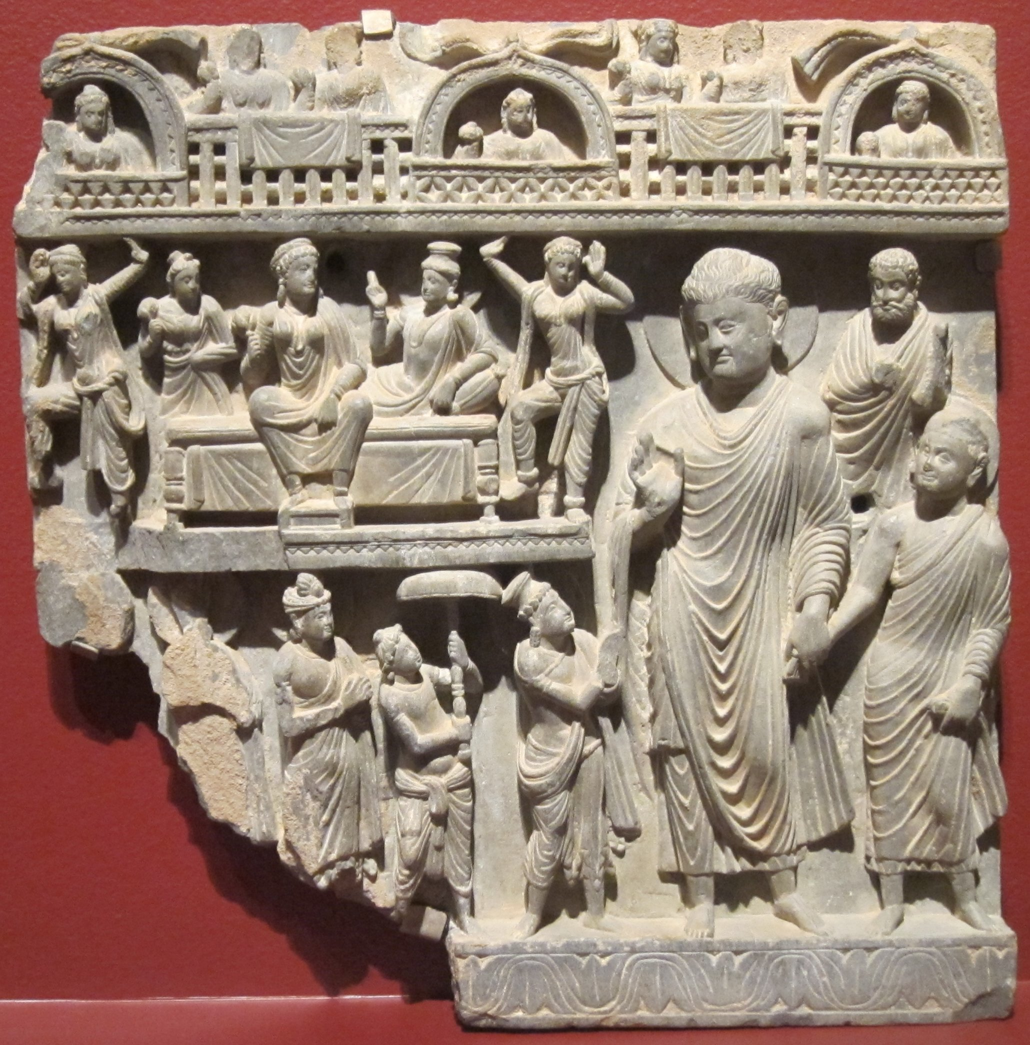 The Buddha and Nanda in the Heaven of the Thirty-three Gods, Pakistan, Gandhara, schist, late 2nd century, San Diego Museum of Art